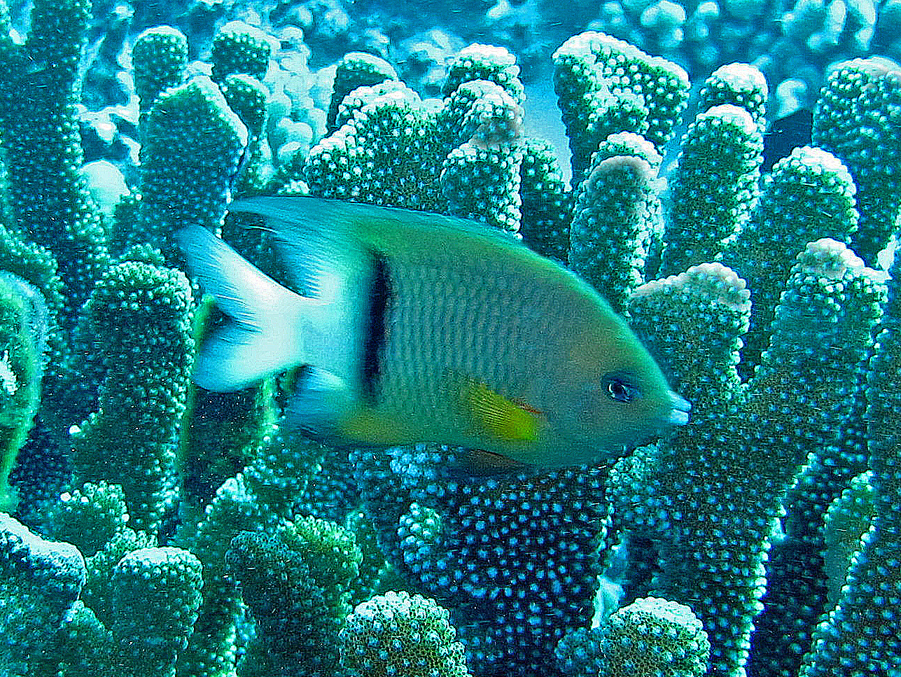 Plectroglyphidodon dickii. French Polynesia